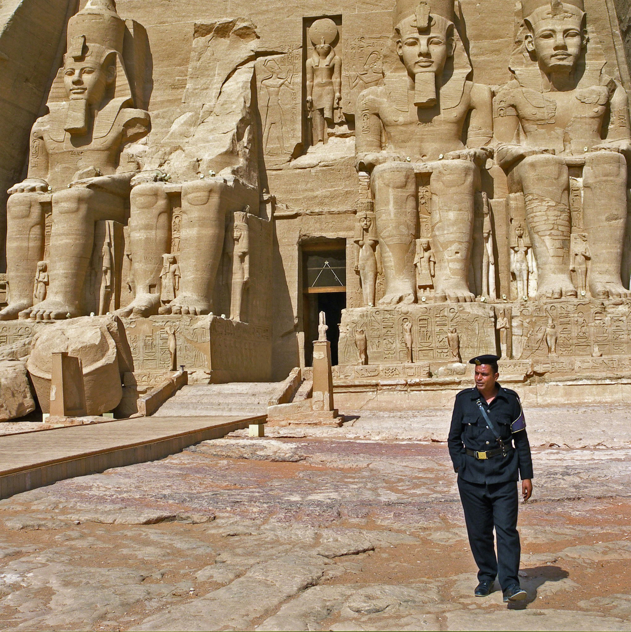 Guardsman of Ramses. Abu Simbel temple, Egypt